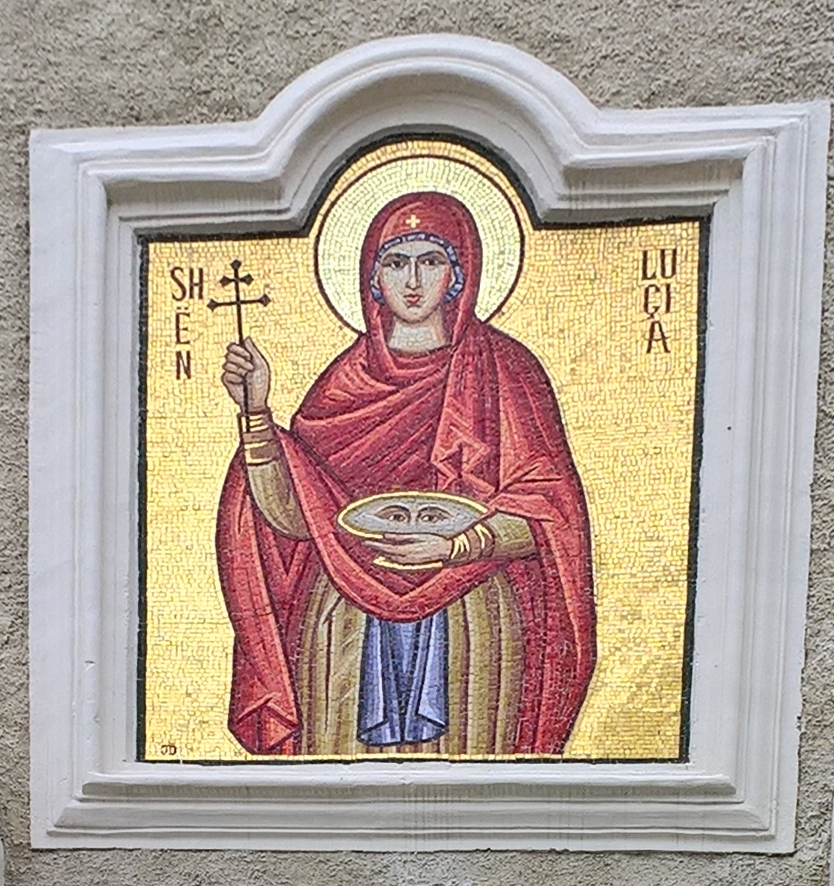 A mosaic on the church front of Saint Lucy